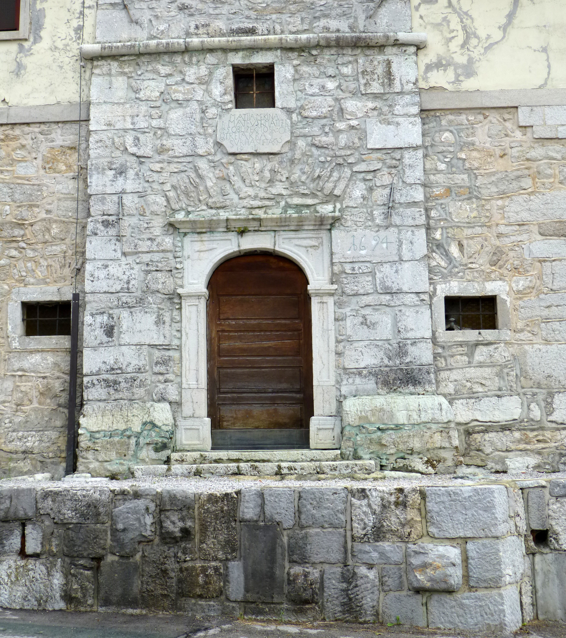 Church portal in RAKEK, near Cerknica, built in 1694.